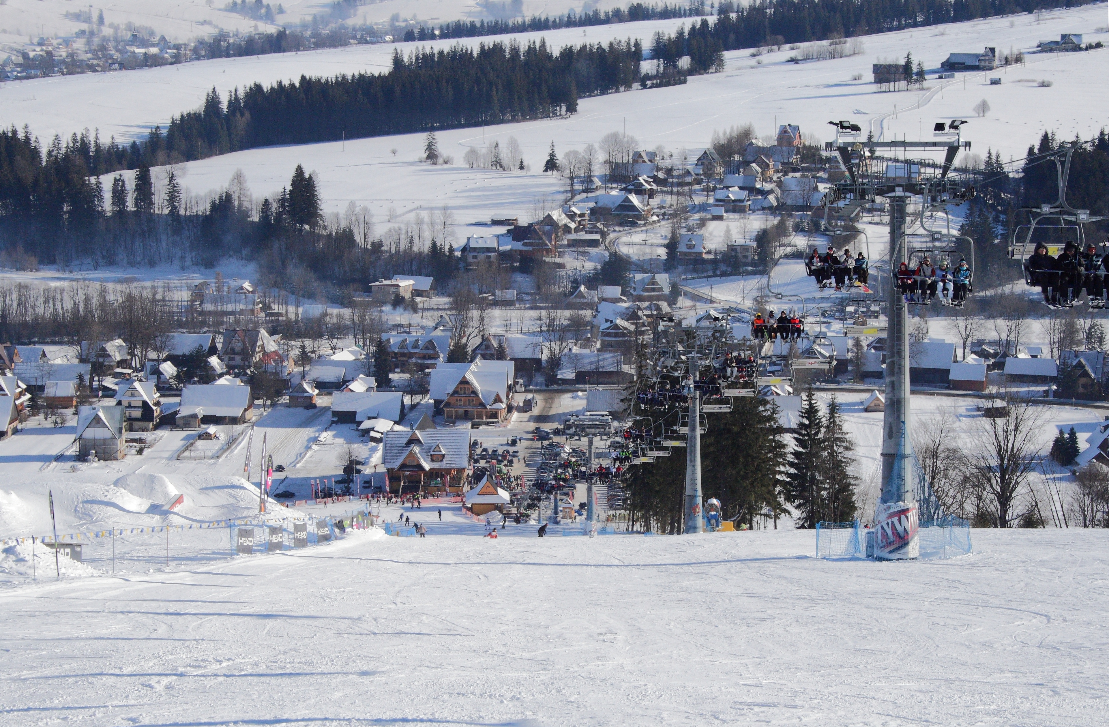 Ski Center Witów-Ski in Witów near Zakopane, Poland